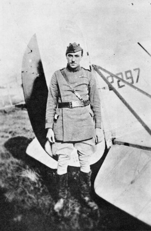 Aviation in Britain Before the First World War Mr Gooden in RFC uniform stood by the tail plane of an aircraft. The photographed is signed by Gooden underneath the image.